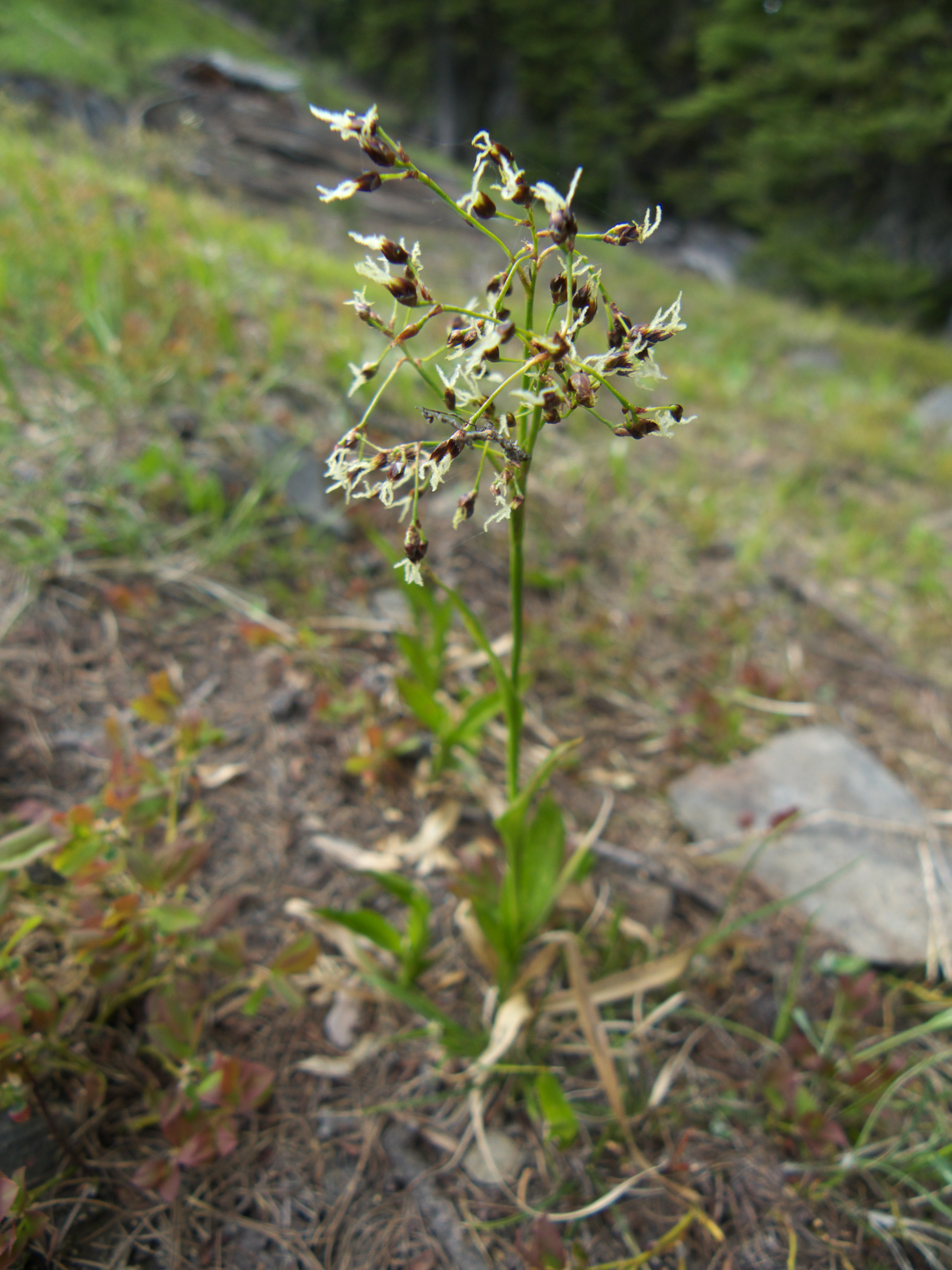 Luzula hitchcockii near Mission Ridge, Chelan County Washington